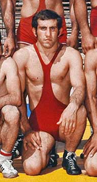 Shahid Heidarnia Stadium (former Mohammad Nassiri and Farah) National Army National Army Corps 1973 - Mohammad Khorrami (68kg)